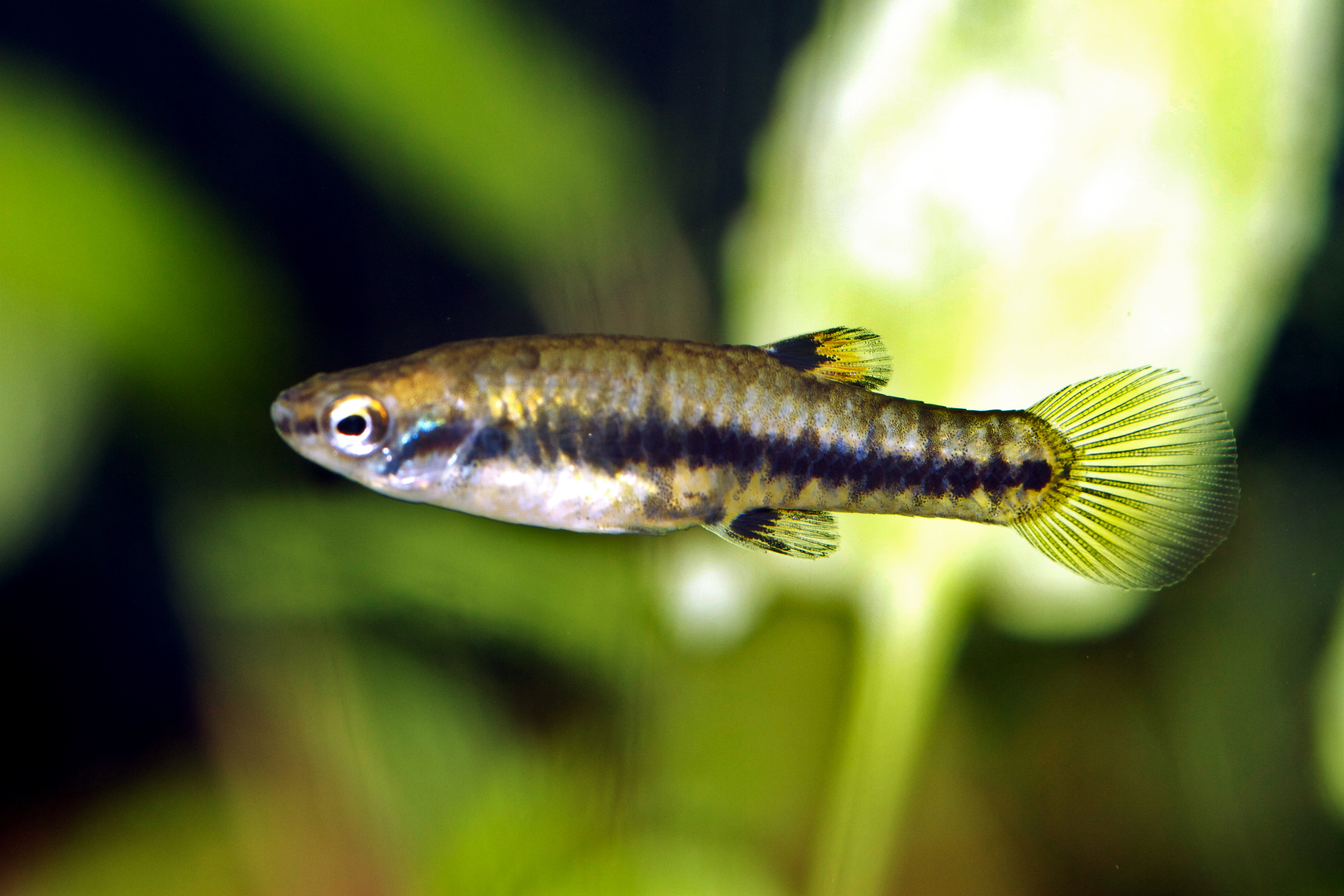 Female specimen of Dwarf Livebearer or Least Killifish (Heterandria formosa)